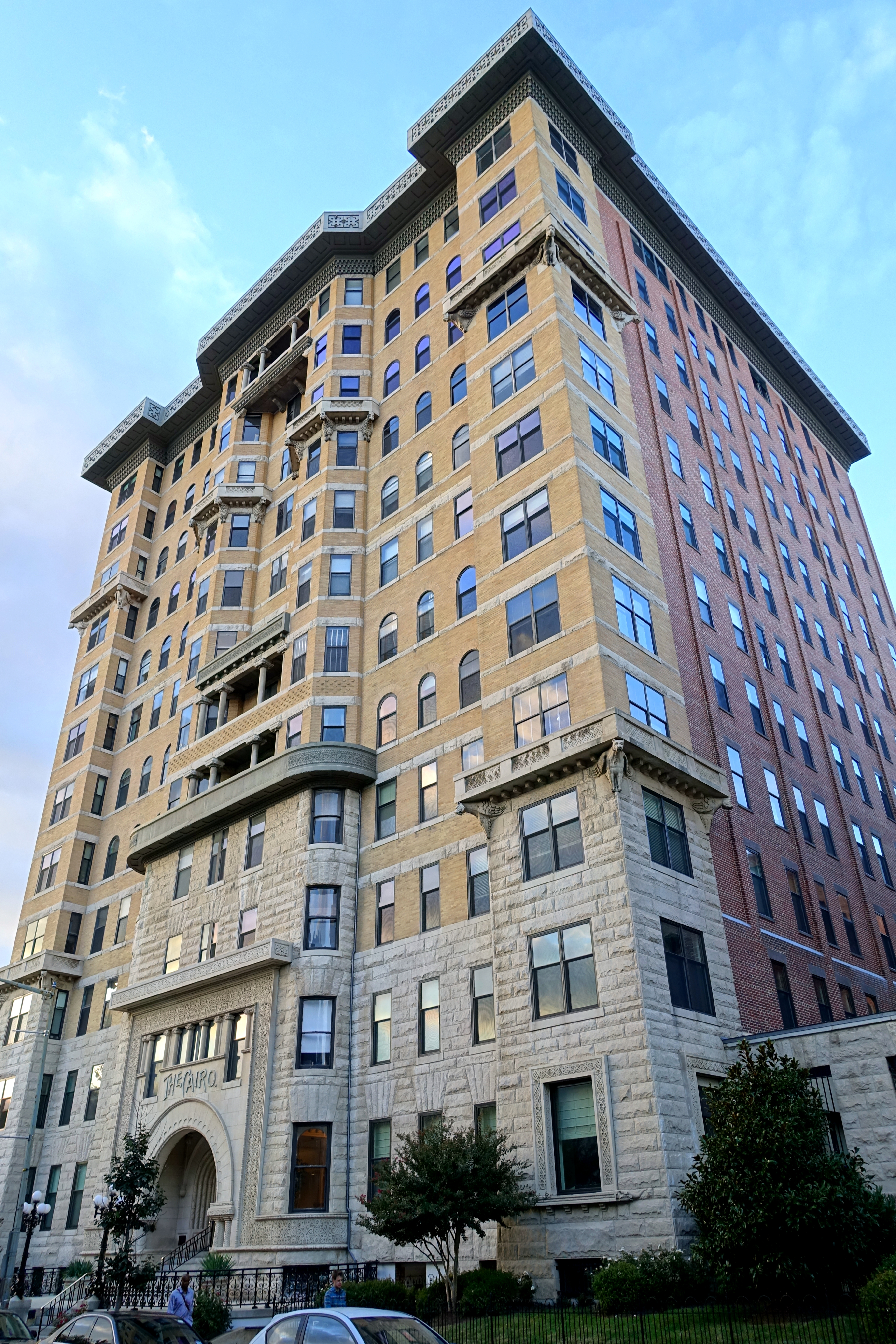 The Cairo - Washington, DC, USA.